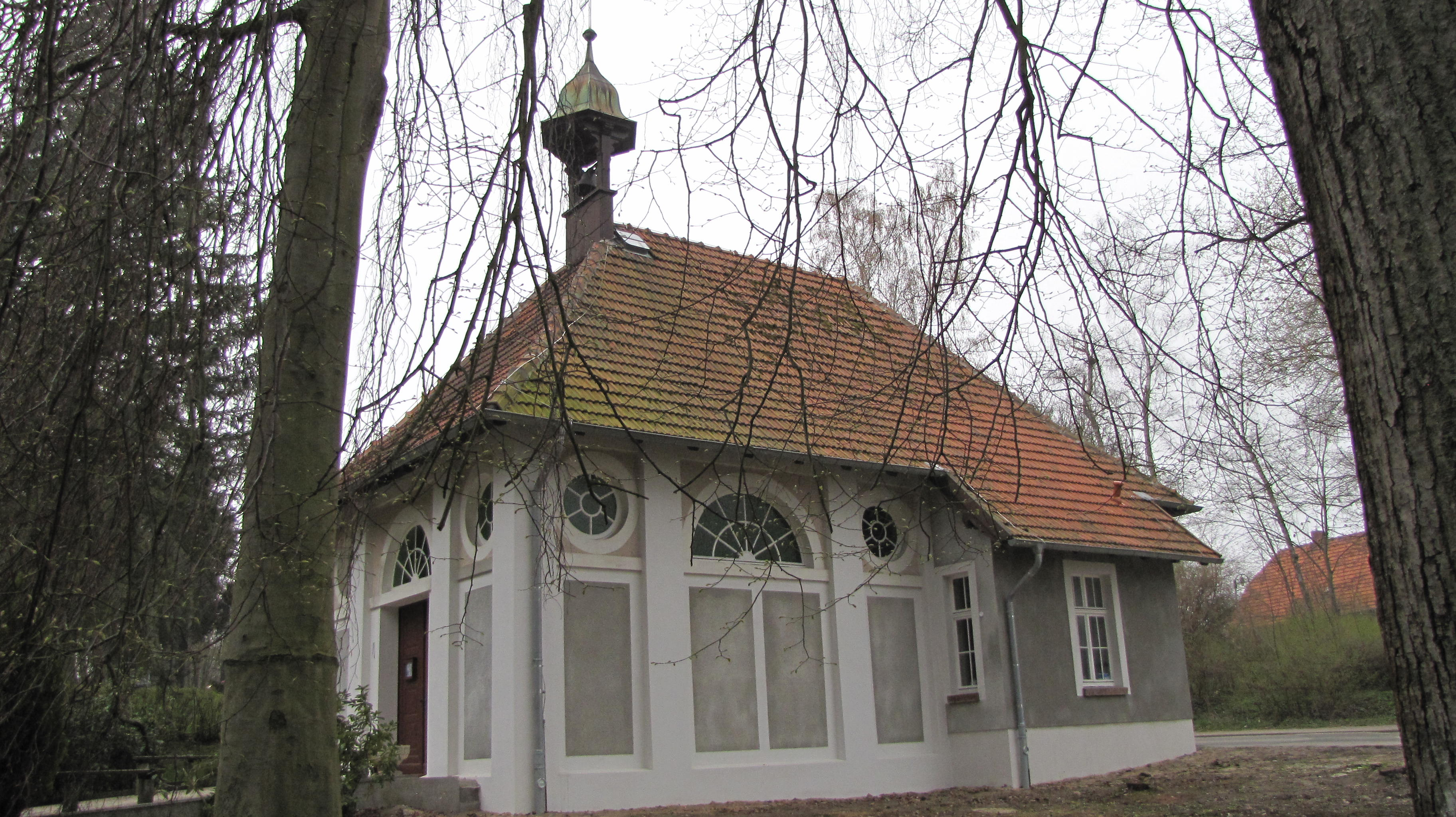 Sachsenberg (Schwerin)